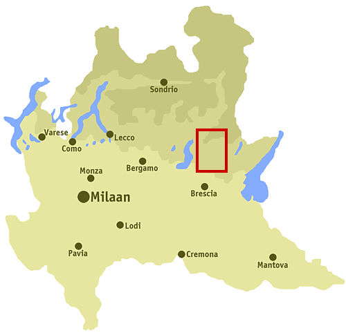 Position of the valley Val Trompia